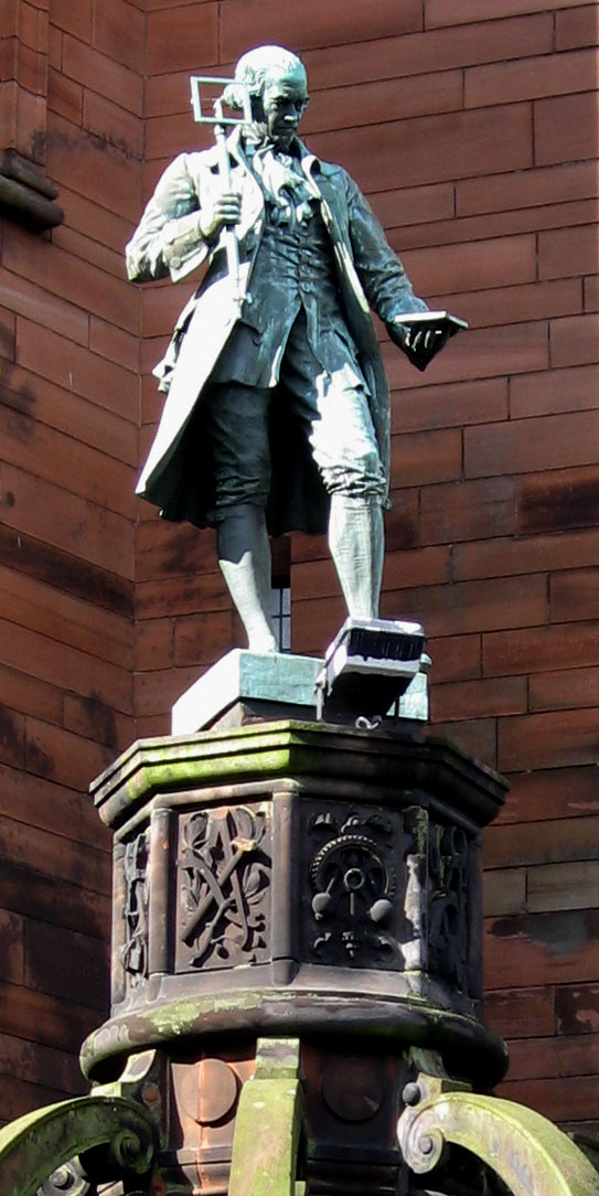 Statue of James Watt at Greenock Town Hall in Greenock Scotland